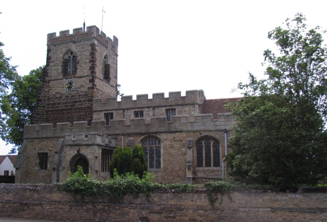 All Saints Cople.